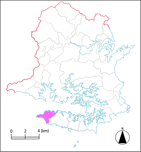 This is the map of Shimacho-Goza, Shima, Mie, Japan.